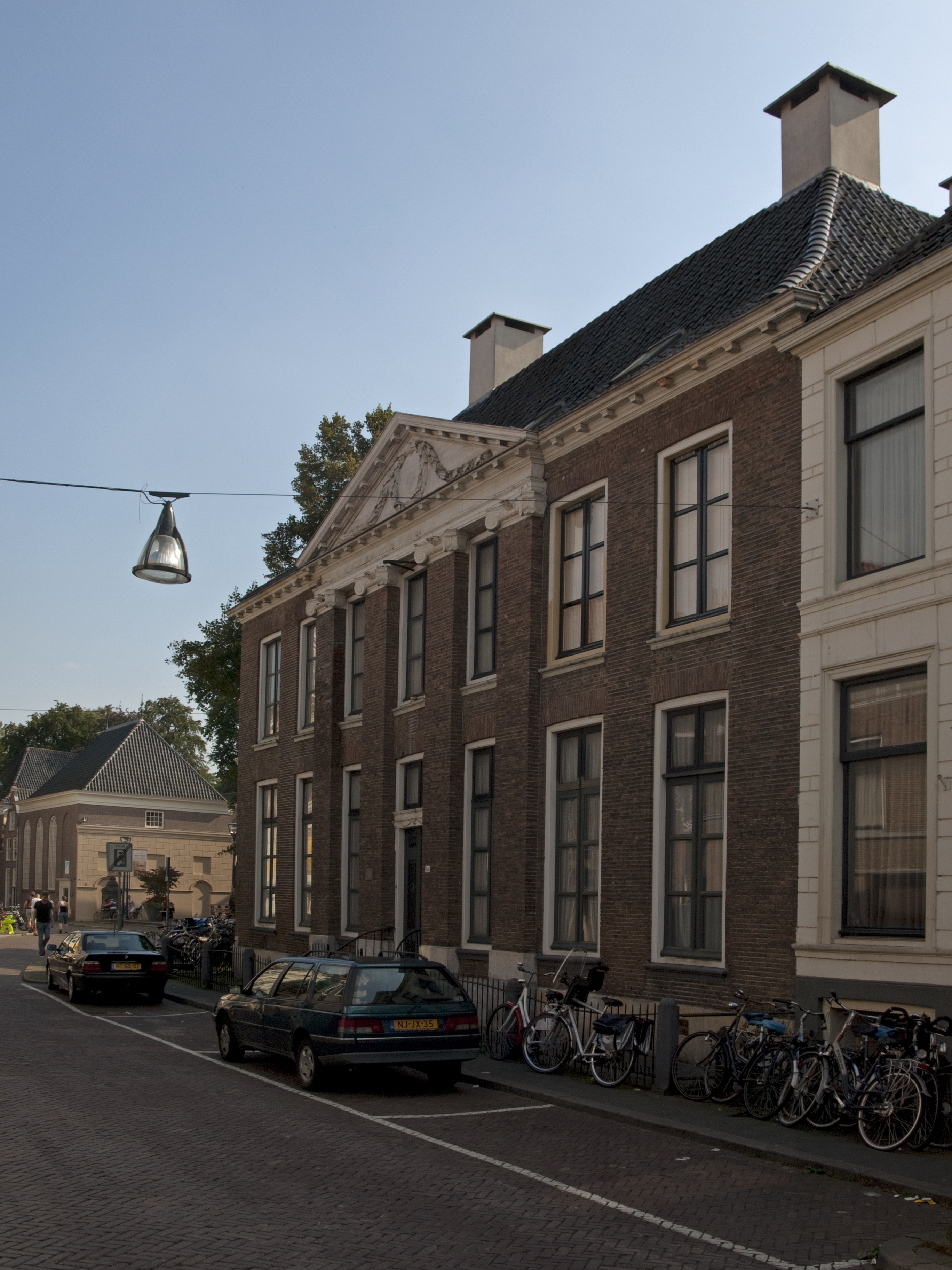 Zwolle, Blijmarkt 16